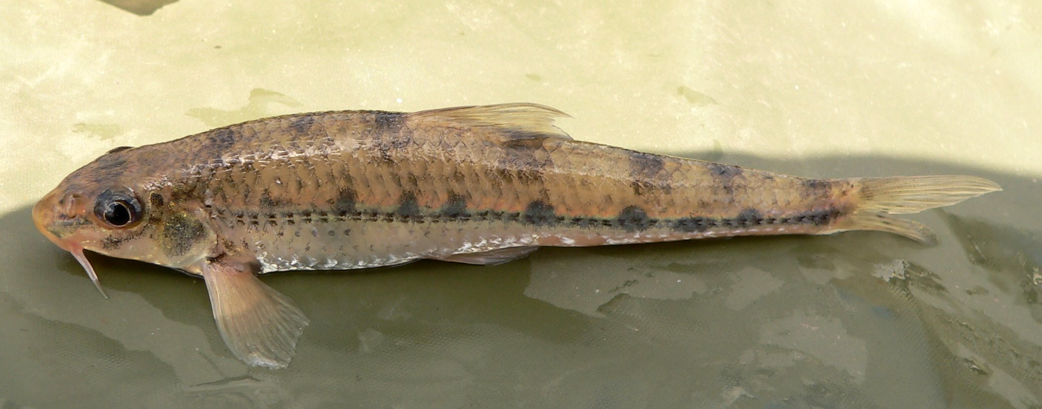 A white-finned gudgeon (Romanogobio belingi). Same fish as File:Witvingrondel10-1.JPG, but kept in a glass jar for an hour.